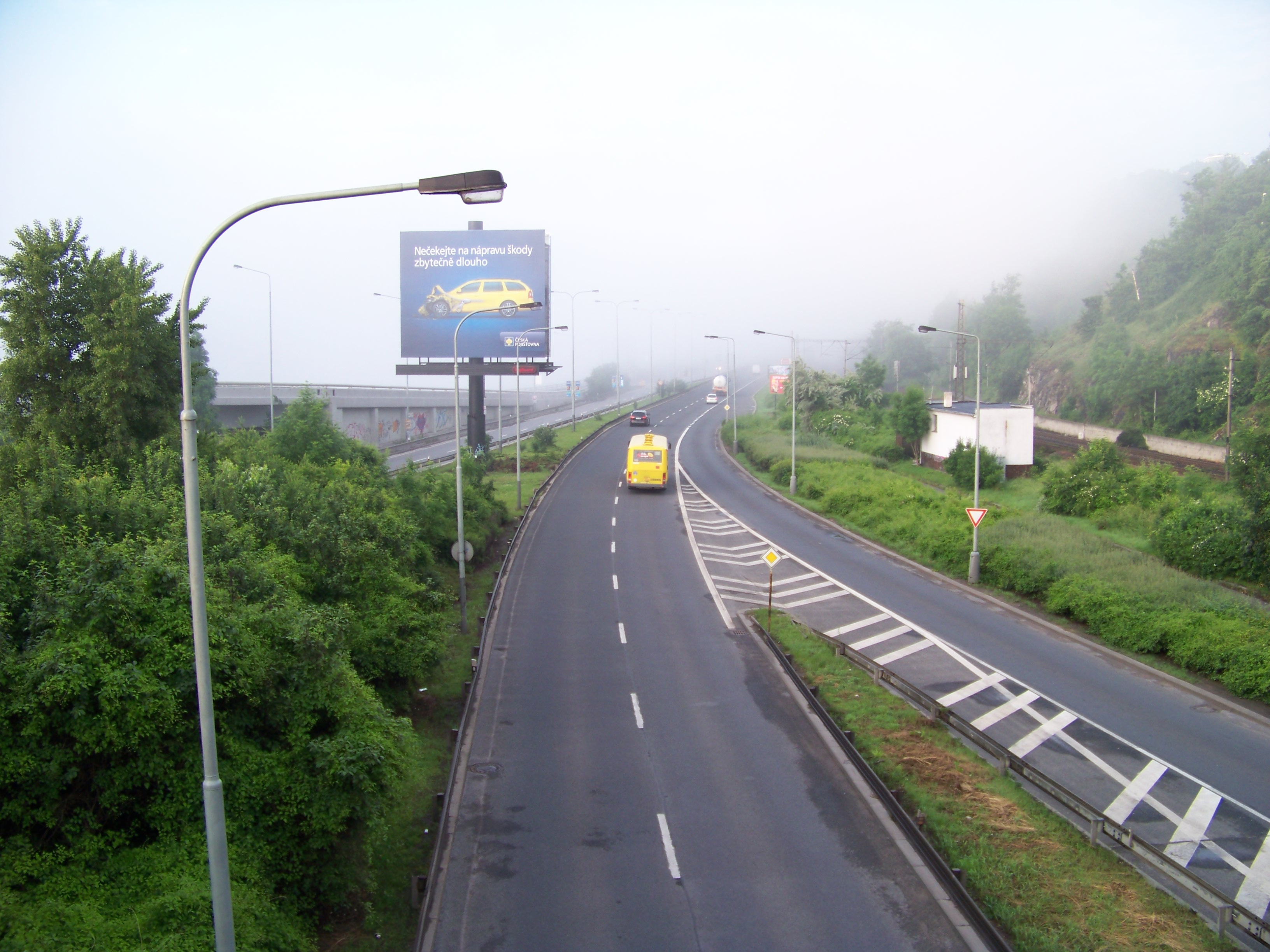 Hlubočepy, Prague, the Czech Republic. Strakonická street near Barrandov Bridge.